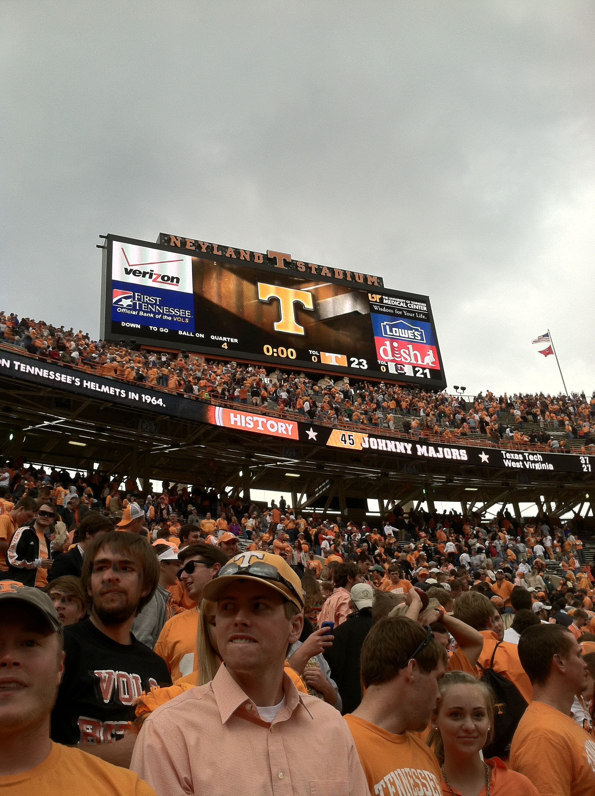 Tennessee stuns #11 South Carolina 23-21.